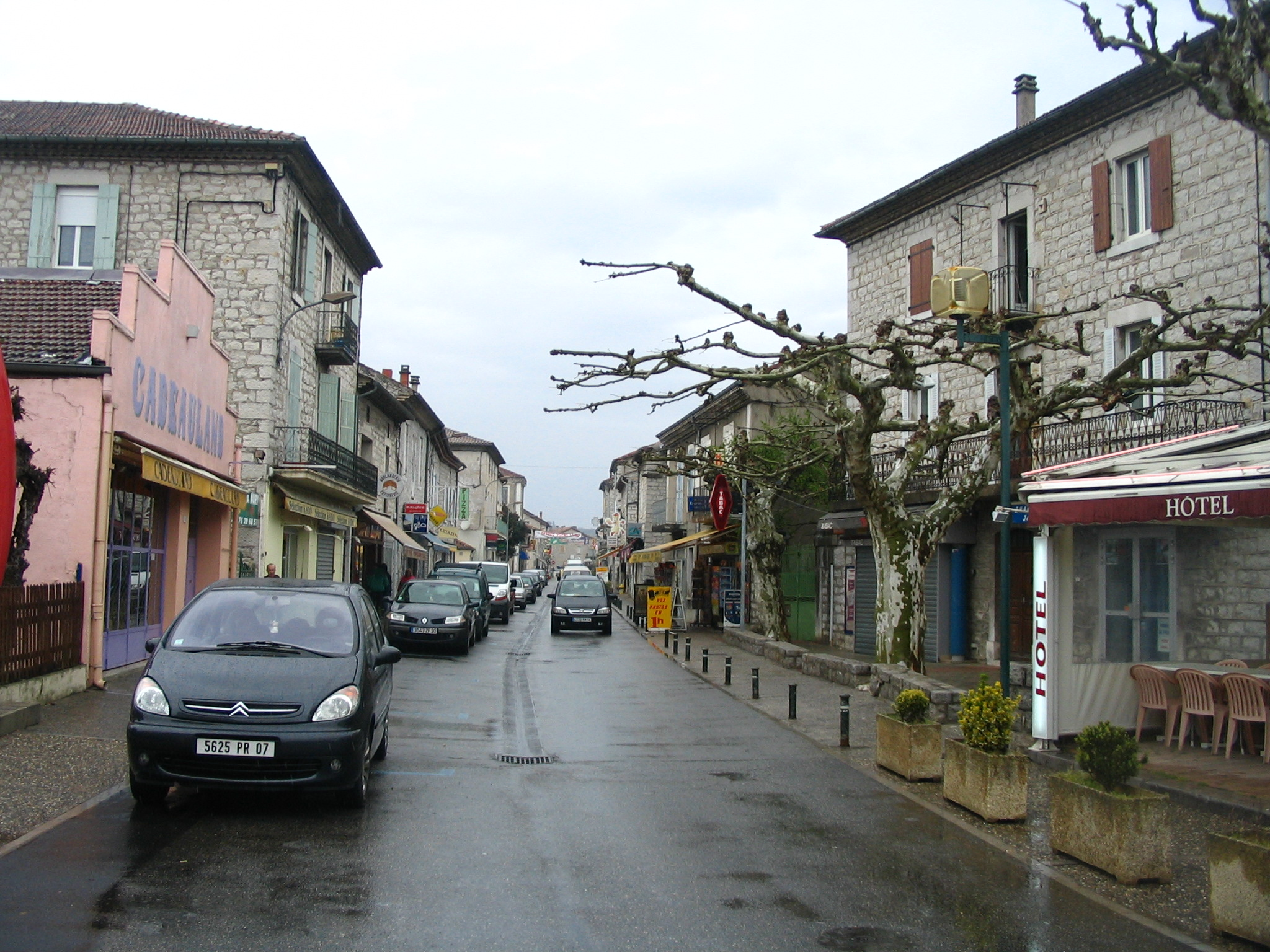 Ville of Ruoms in the Ardèche region